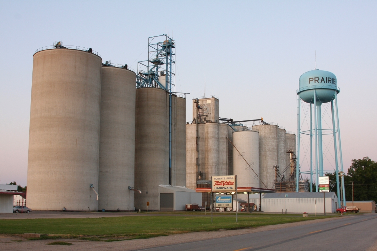 Grain elevators in Prairie City.